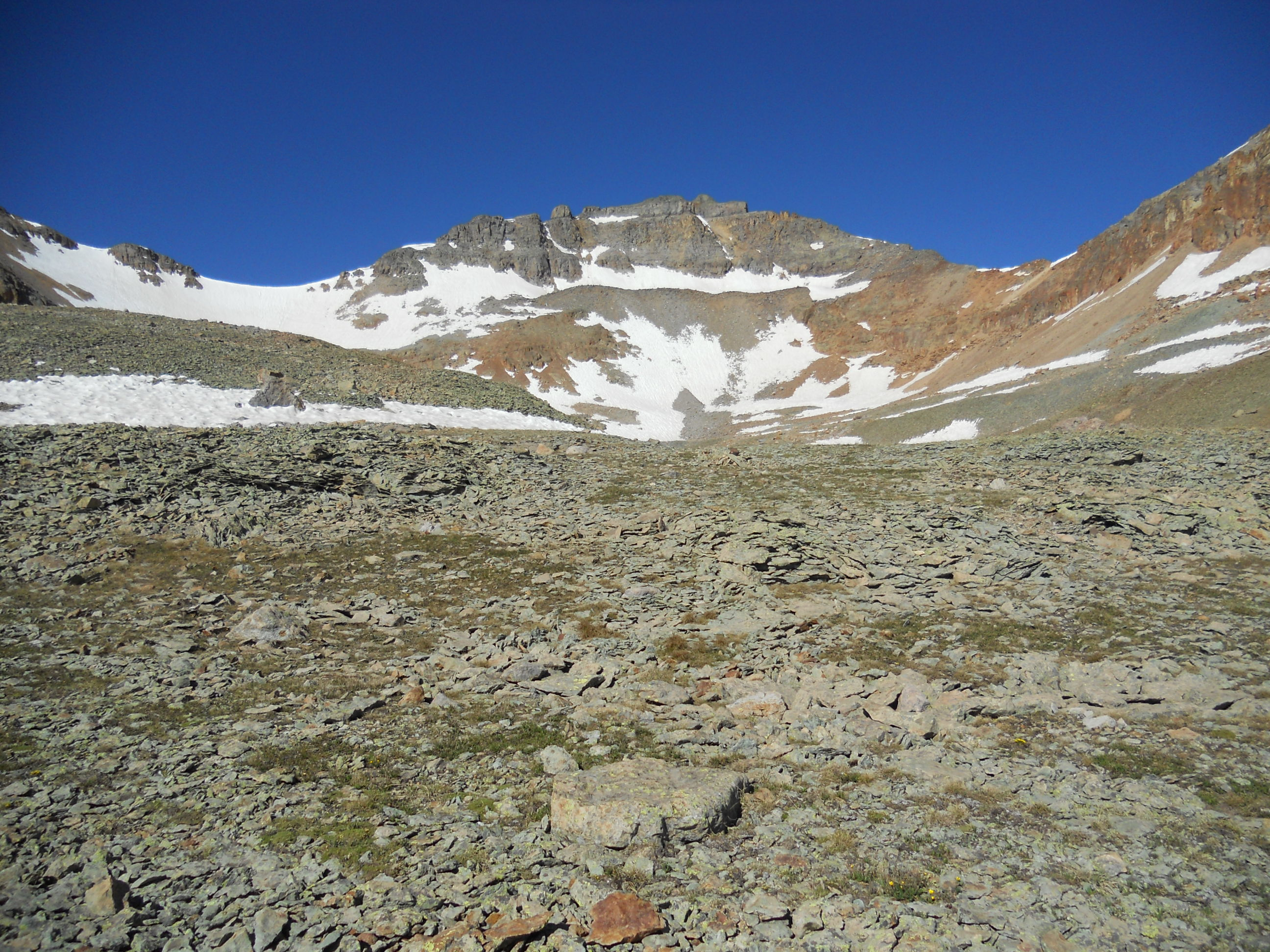 Vermilion Peak (elevation 13,894 ft (4,235 m)) as viewed from the east in Ice Lake Basin, elevation 13,000 ft (3,960 m). The peak is on the border between the San Juan National Forest and the Uncompahgre National Forest and is the San Juan County high point.